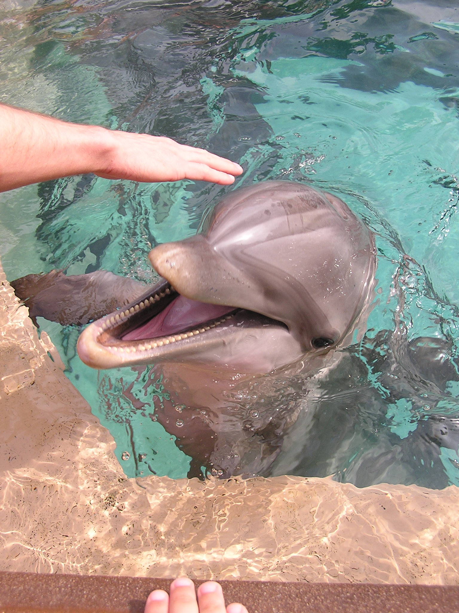 Petting the dolphins at Sea World Orlando